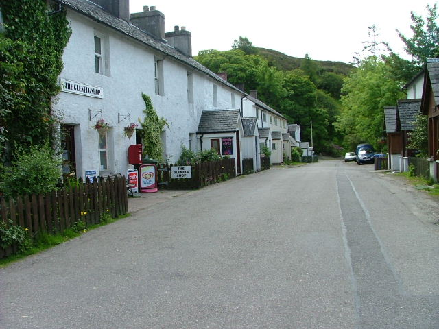 Glenelg main street